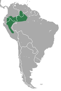 Anderson's Four-eyed Opossum (Philander andersoni) range